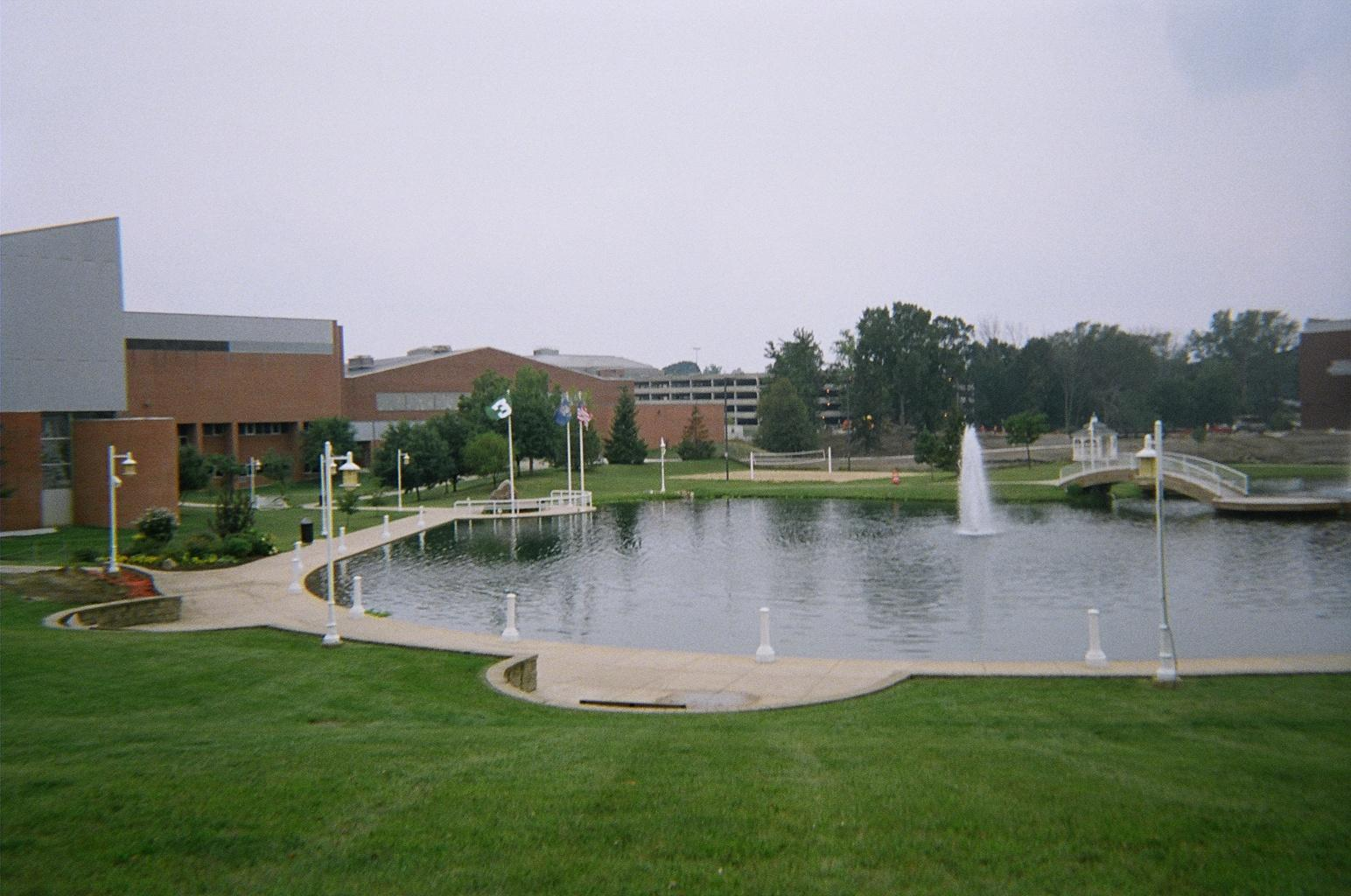 University Park on campus, in the background is the Rec/IM center. On the far right (not in view) is the Student Center.